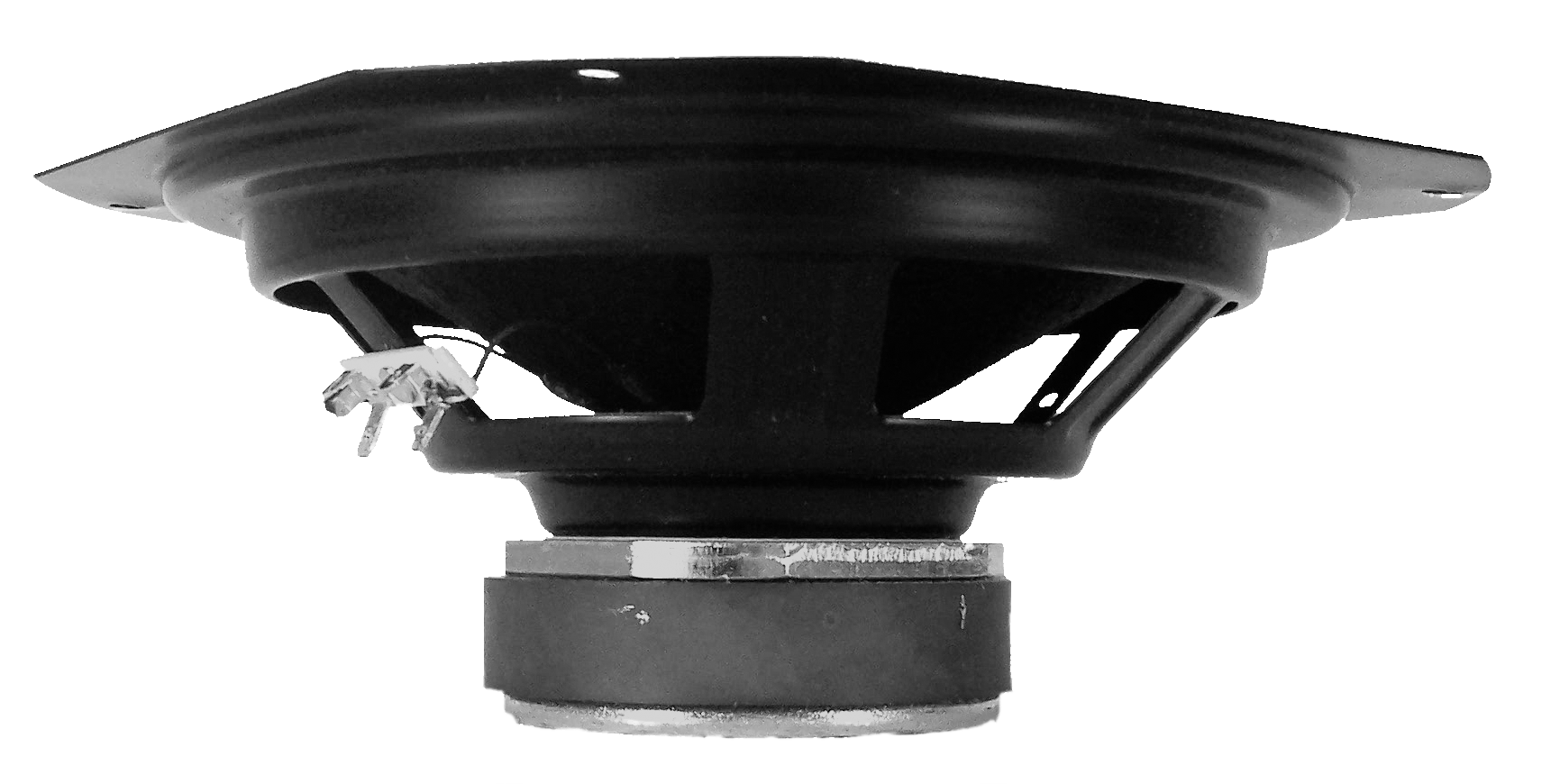 Chassis of a Loudspeaker, sideview